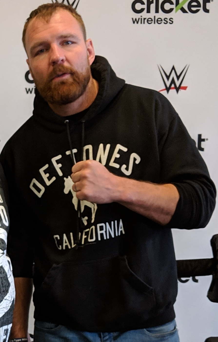 Professional wrestler, Jon Moxley on March 5, 2019.